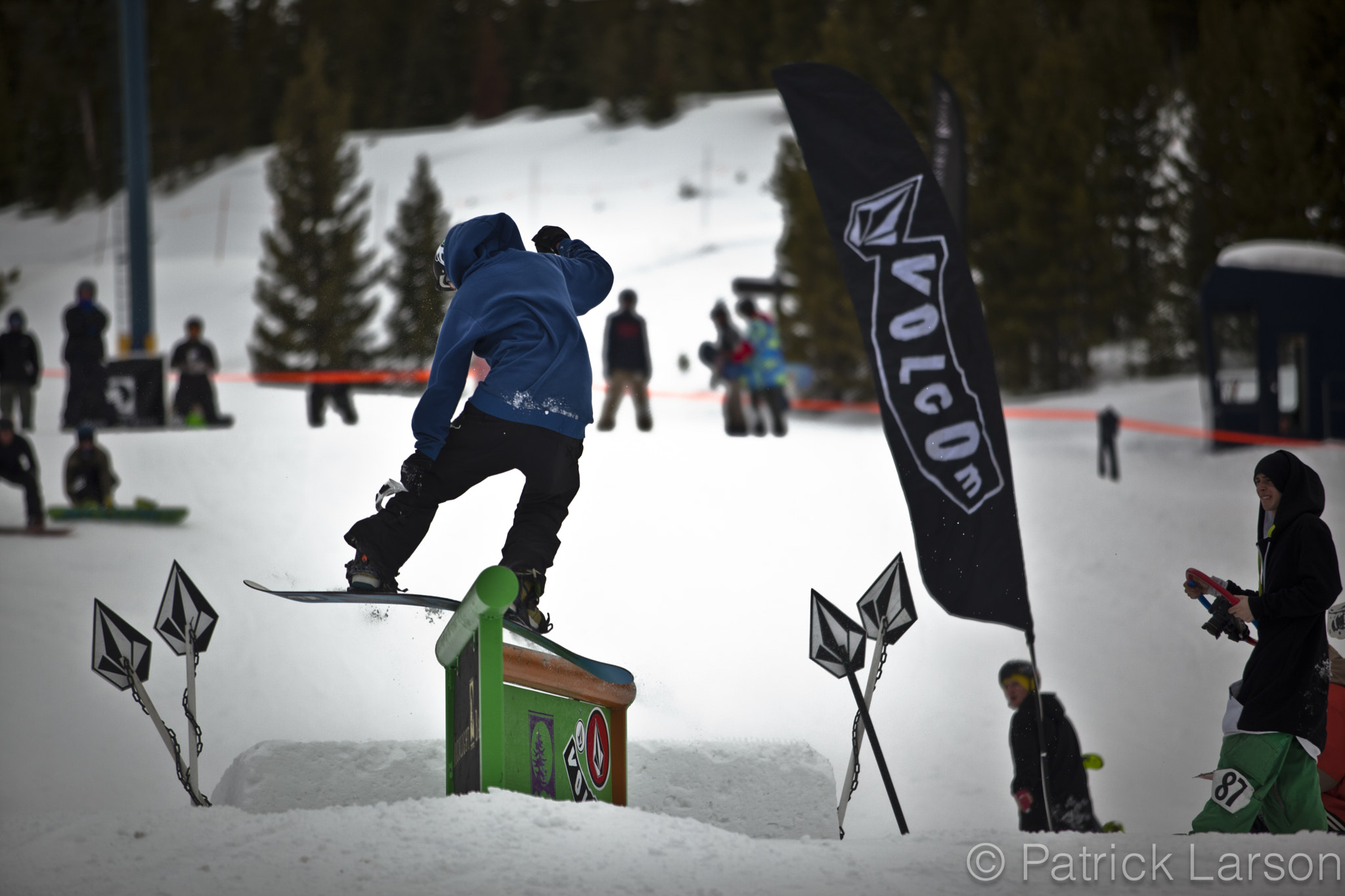 500px provided description: Volcom Stone PB & Rail Jam at Moonlight Basin Ski Resort in Big Sky, MT [#Snowboarding ,#Volcom ,#PB & Rail Jam ,#Moonlight Basin ,#Rail Jam ,#Jib ,#Front Flip]